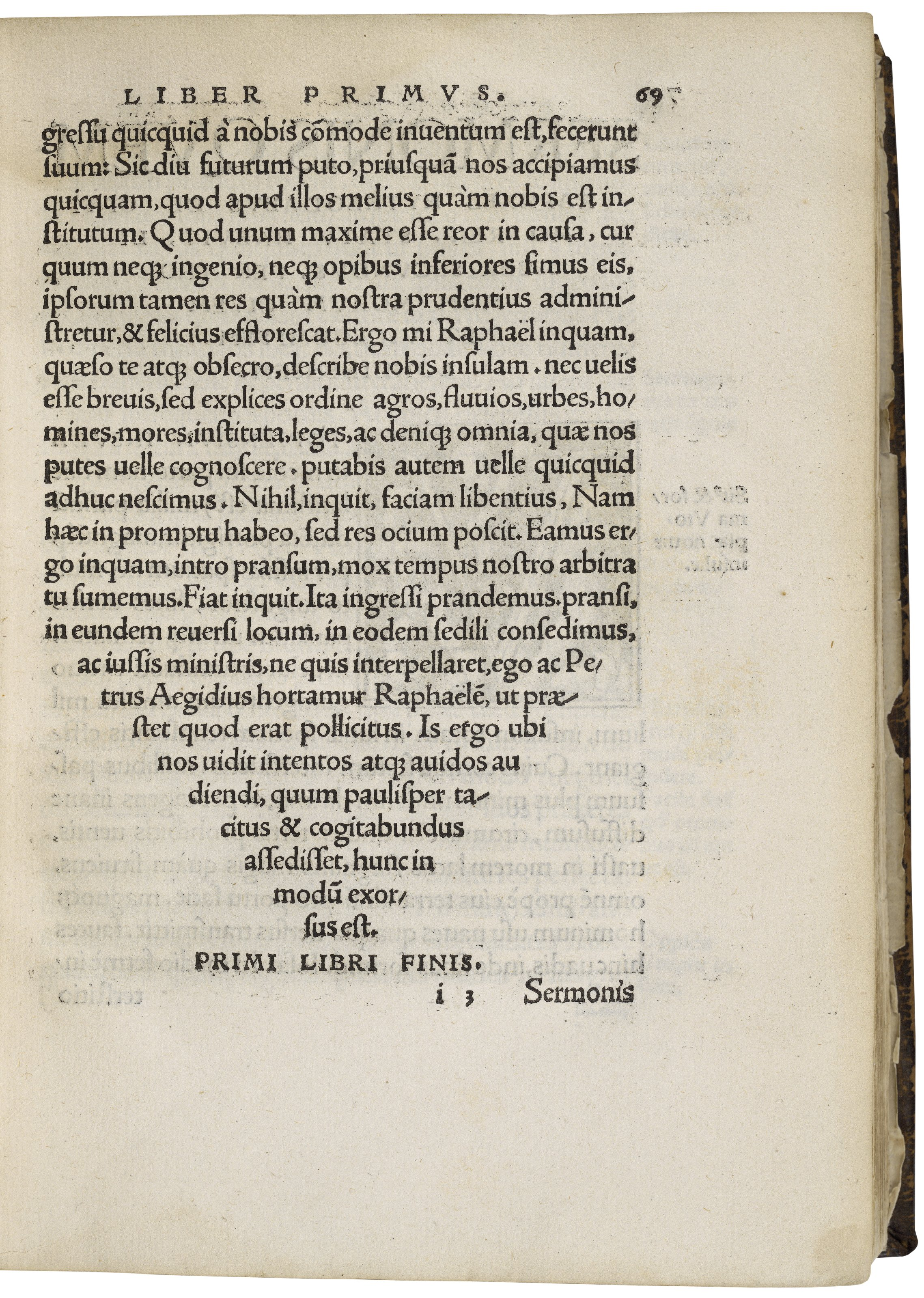 This is page 69 of Thomas More's Utopia, the last page of the Book 1 (november 1518)